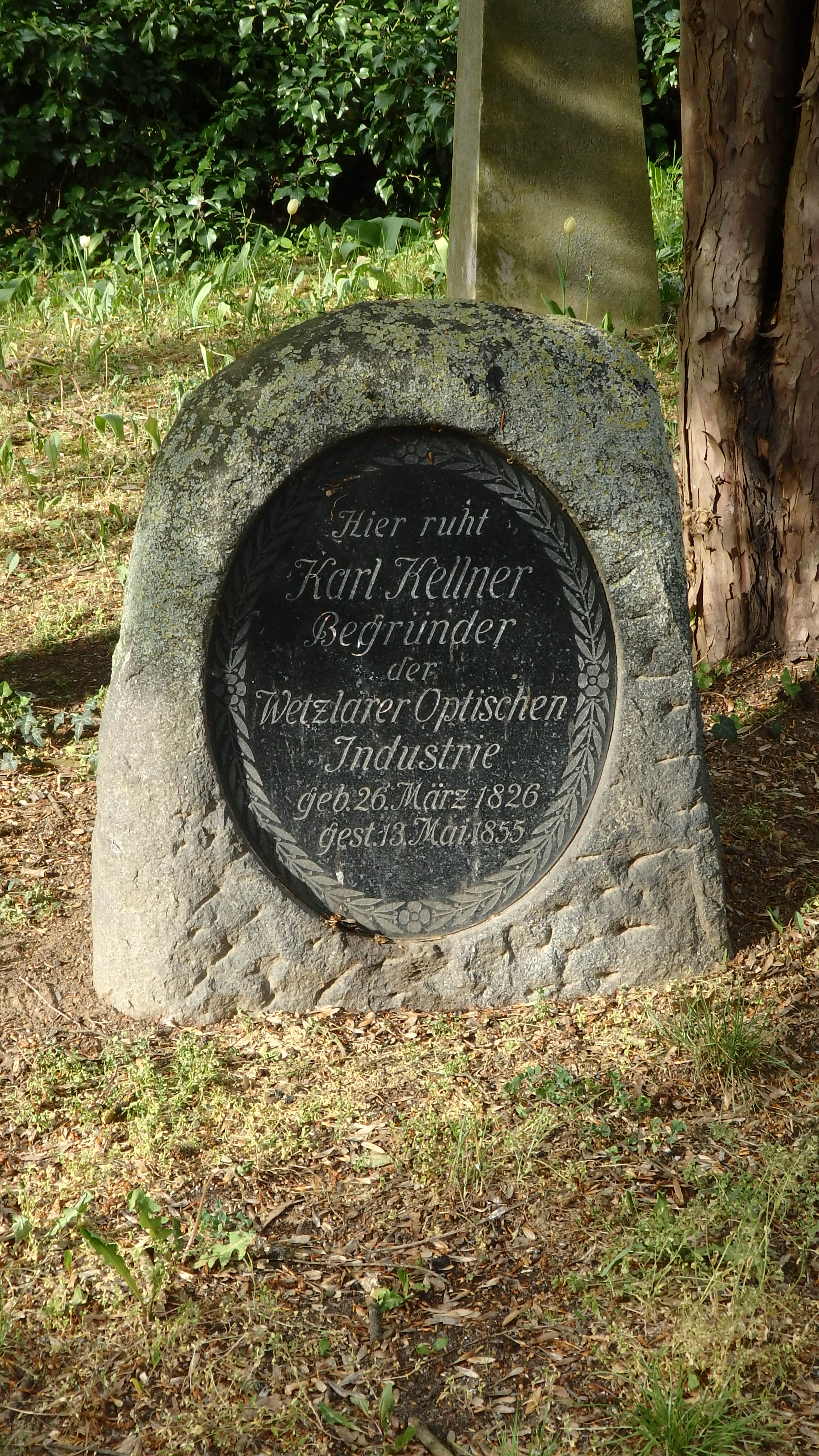 Gravestone Carl Kellners in Rosengärtchen, the former cemetery of Wetzlar. At the side an information board.